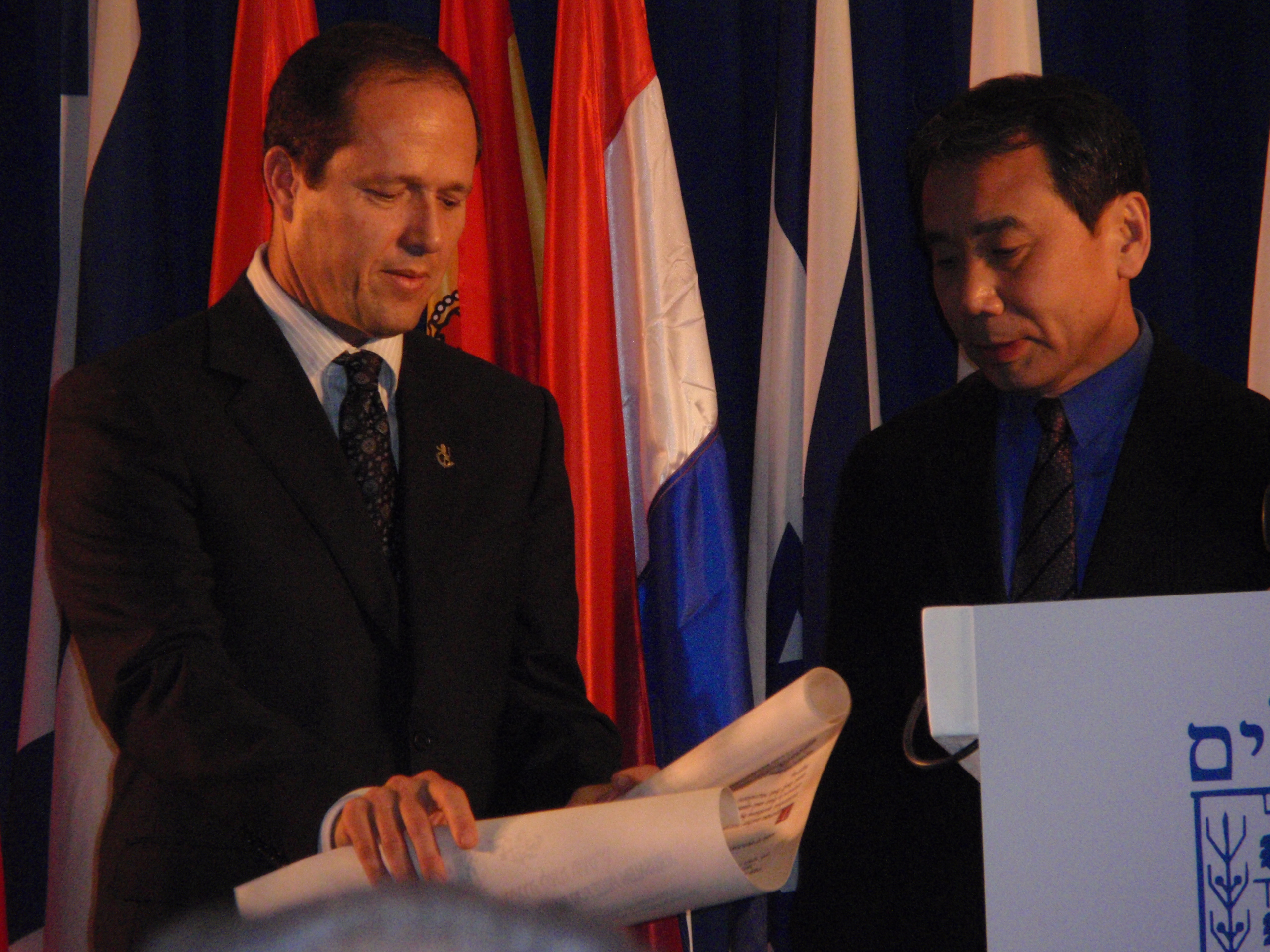 Haruki Murakami at the Jerusalem Prize 2009